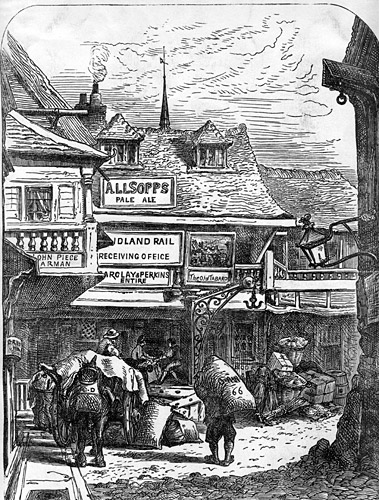 The Tabard inn, Southwark, mid-19th century. From a mid-19th century engraving.